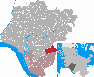 This map shows the area of the municipality Hohenfelde in the Kreis (district) Steinburg, Schleswig-Holstein, Germany.